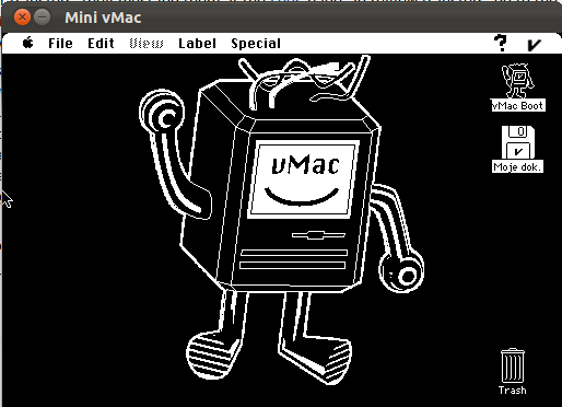 Screenshot from vMac. Runned system is modified (by vMac Project) Mac OS 7.0.1.